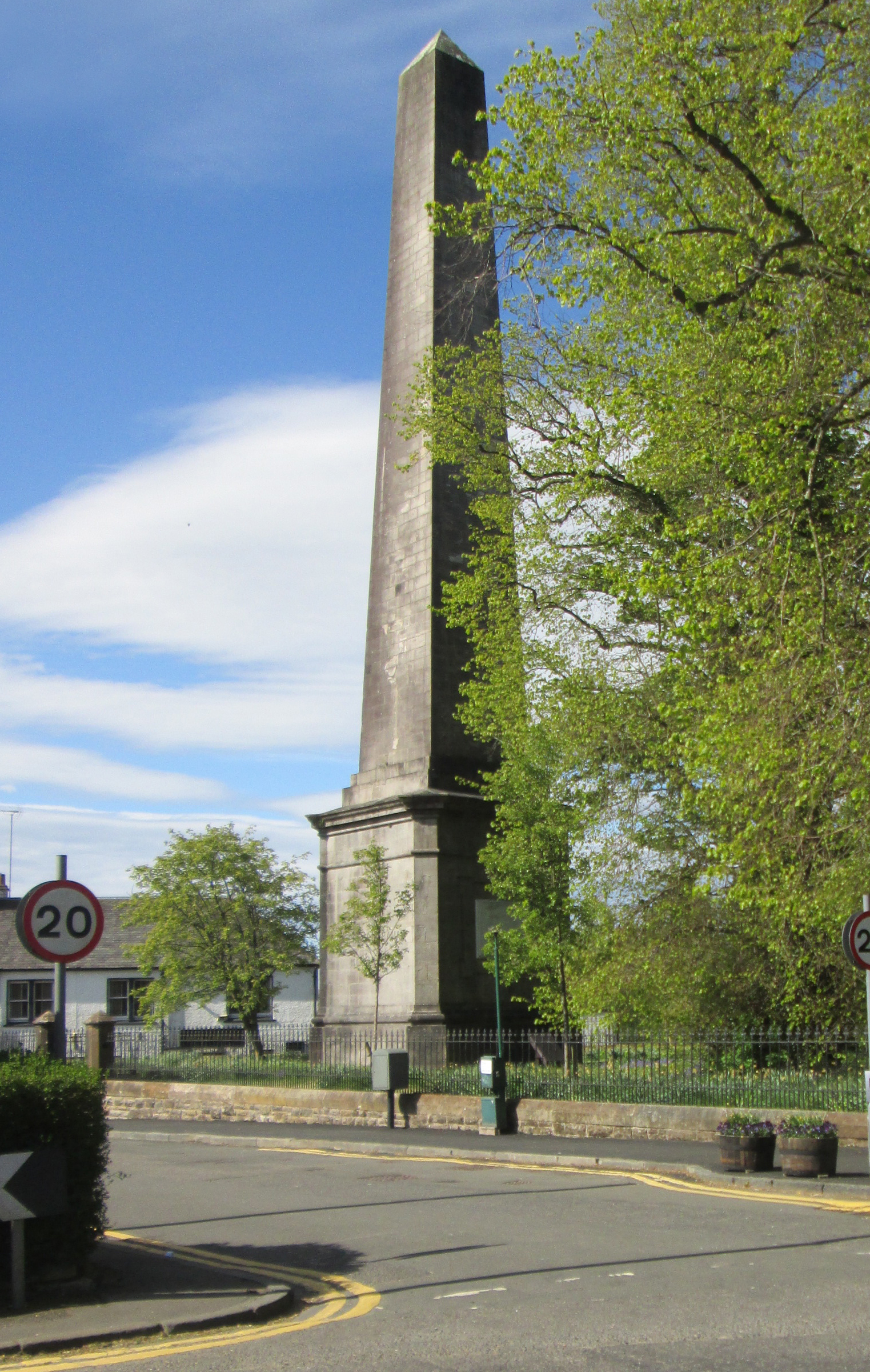 The Buchanan Obelisk in Killearn commemorates the nearby 1506 birthplace of George Buchanan; historian, scholar and tutor to the young King James VI of Scotland.